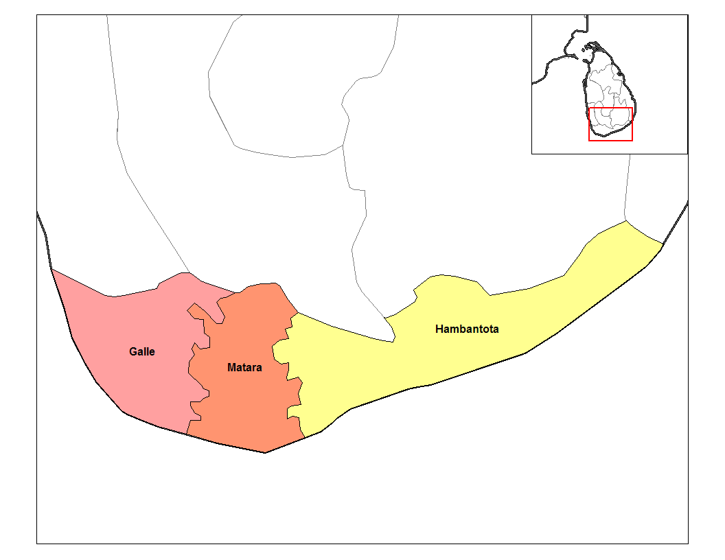 Map of the districts of Southern province in Sri Lanka. Created by Rarelibra 12:58, 19 September 2006 (UTC) for public domain use, using MapInfo Professional v8.5 and various mapping resources.